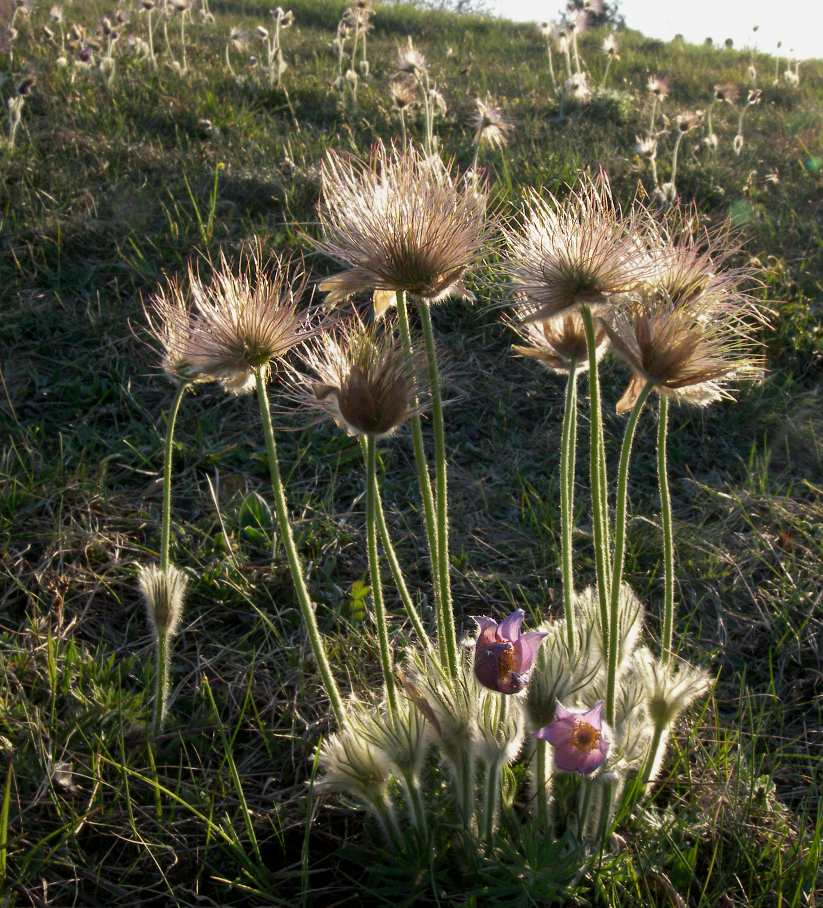 Pulsatilla grandis, Pasque flower .Sunny,stoned,dry place. Nature relic "Netopýrky", Brno Komín,Czech republic,Evropa.